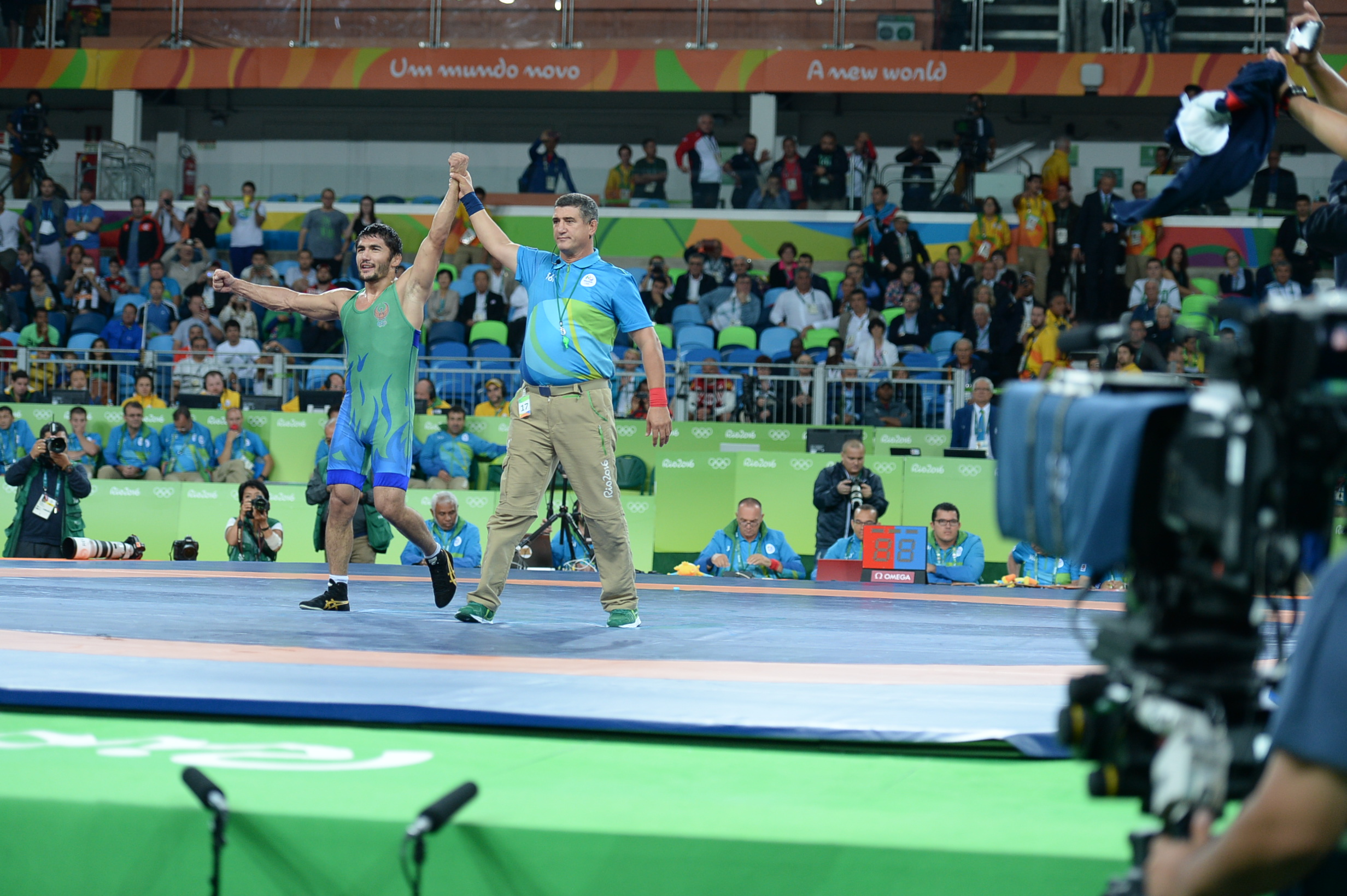 Wrestling at the 2016 Summer Olympics, Navruzov vs Mandakhnaran